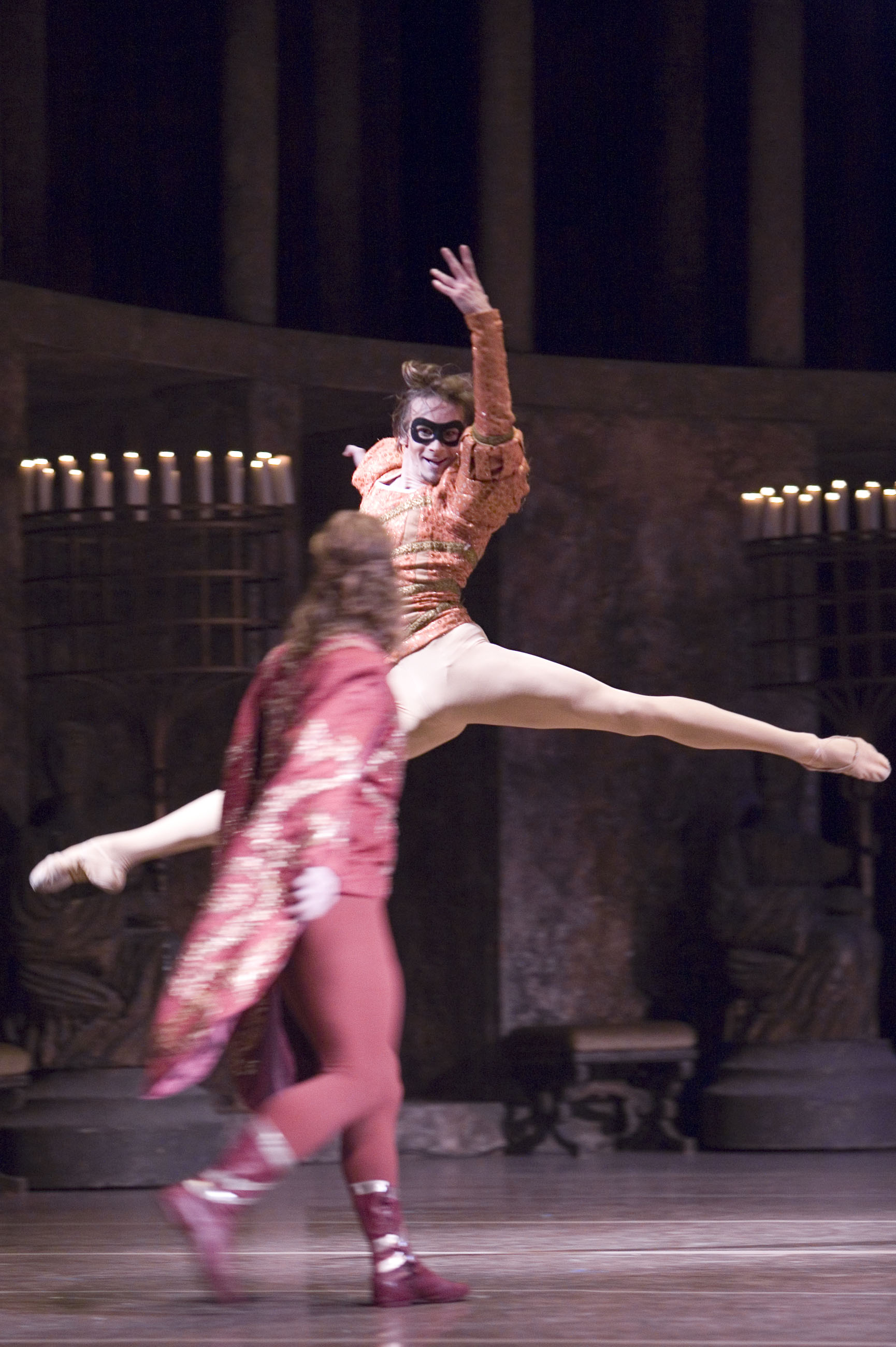 Jens Rosén 2007